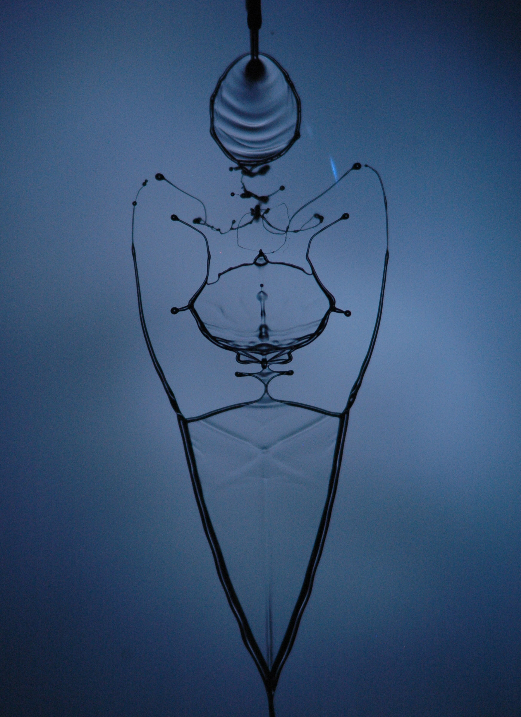 This image, taken using a Nikon D40X with a 105mm lens and a Xenon flash lamp with ~1us duration, shows an unstable flow structure generated from the collision of two impinging jets with the diameter of 0.85mm.